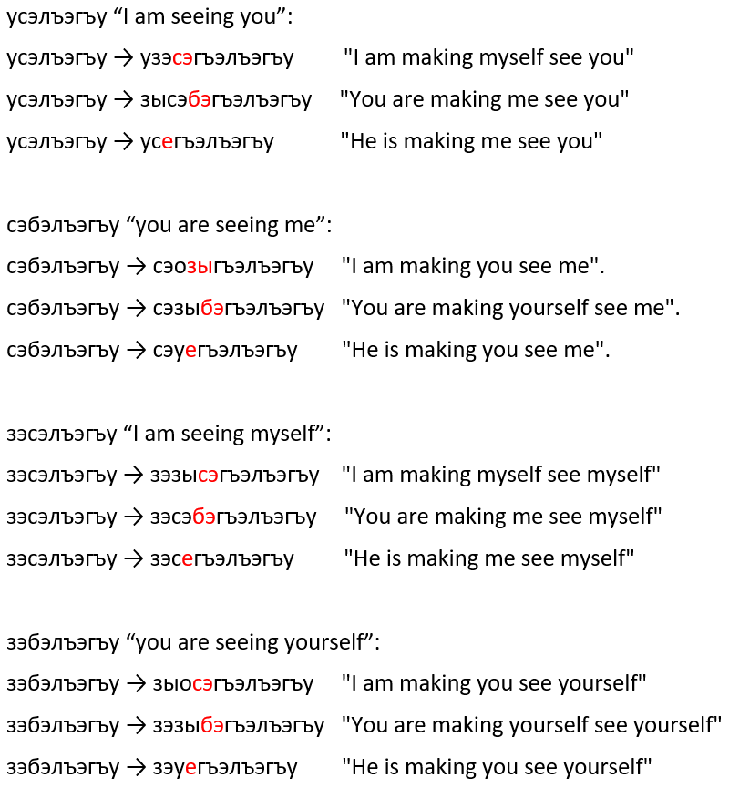 Bivalent To Trivalent Example of the verb лъэгъун